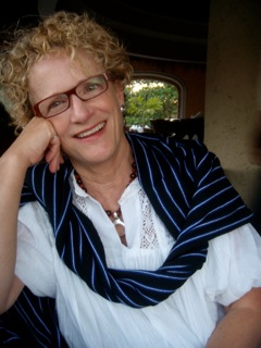 Sara Perry, author of Everything Tastes Better with Bacon, picture taken in Mexico.